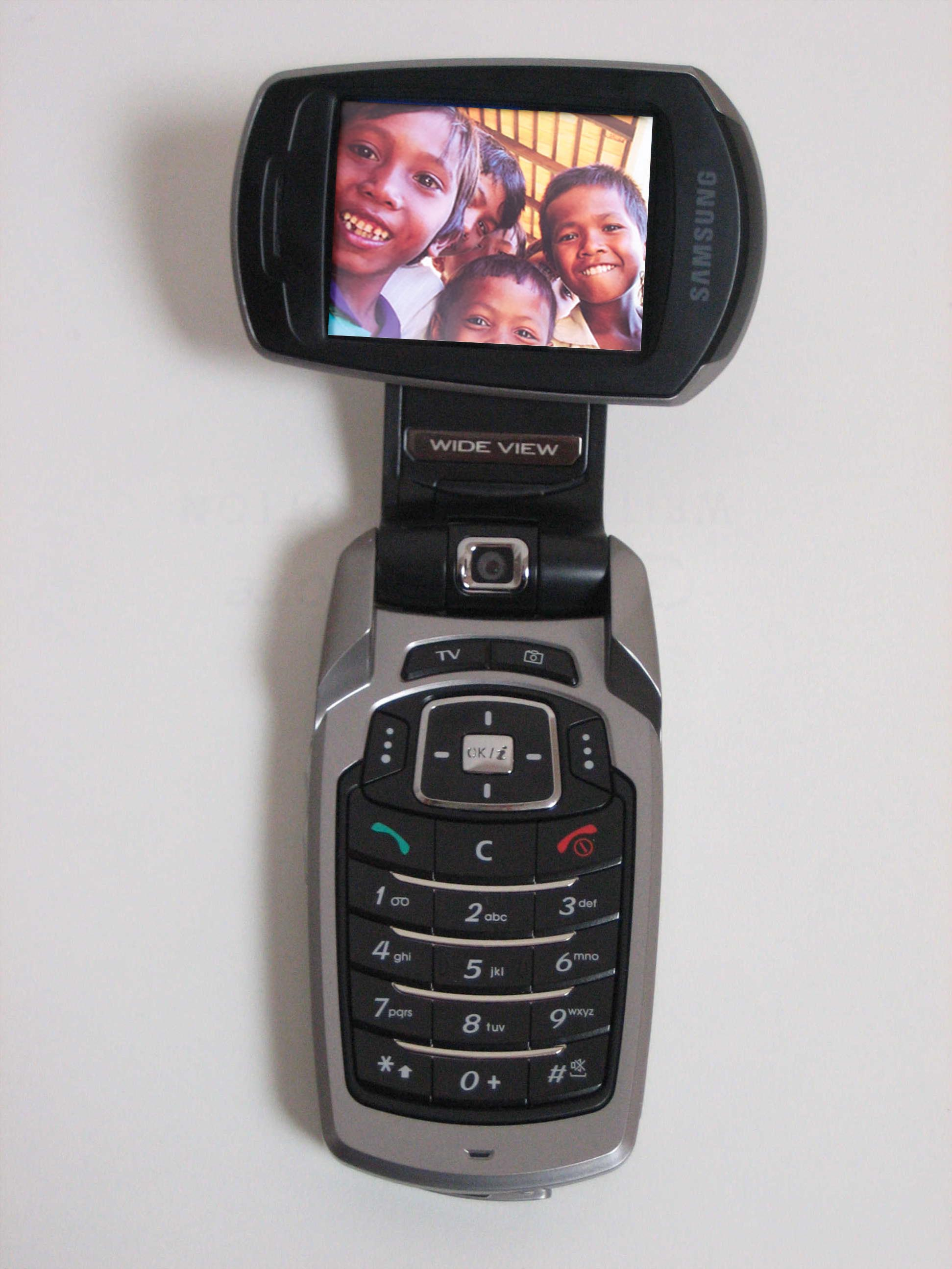 Mobile_phone_for_TV.jpg shows the Samsung SGH-P900 mobile phone which is suitable for TV reception. The original image on the screen was changed due to the fact, that it was a copyrighted screenshot. Screen content is taken from Image:Laptop-front.jpg (CC-BY-2.5).